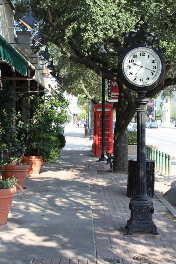 OU Campus Corner in Norman, OK. Taken in front of Cafe Plaid.